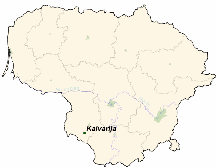 Kalvarija on the map of Lithuania